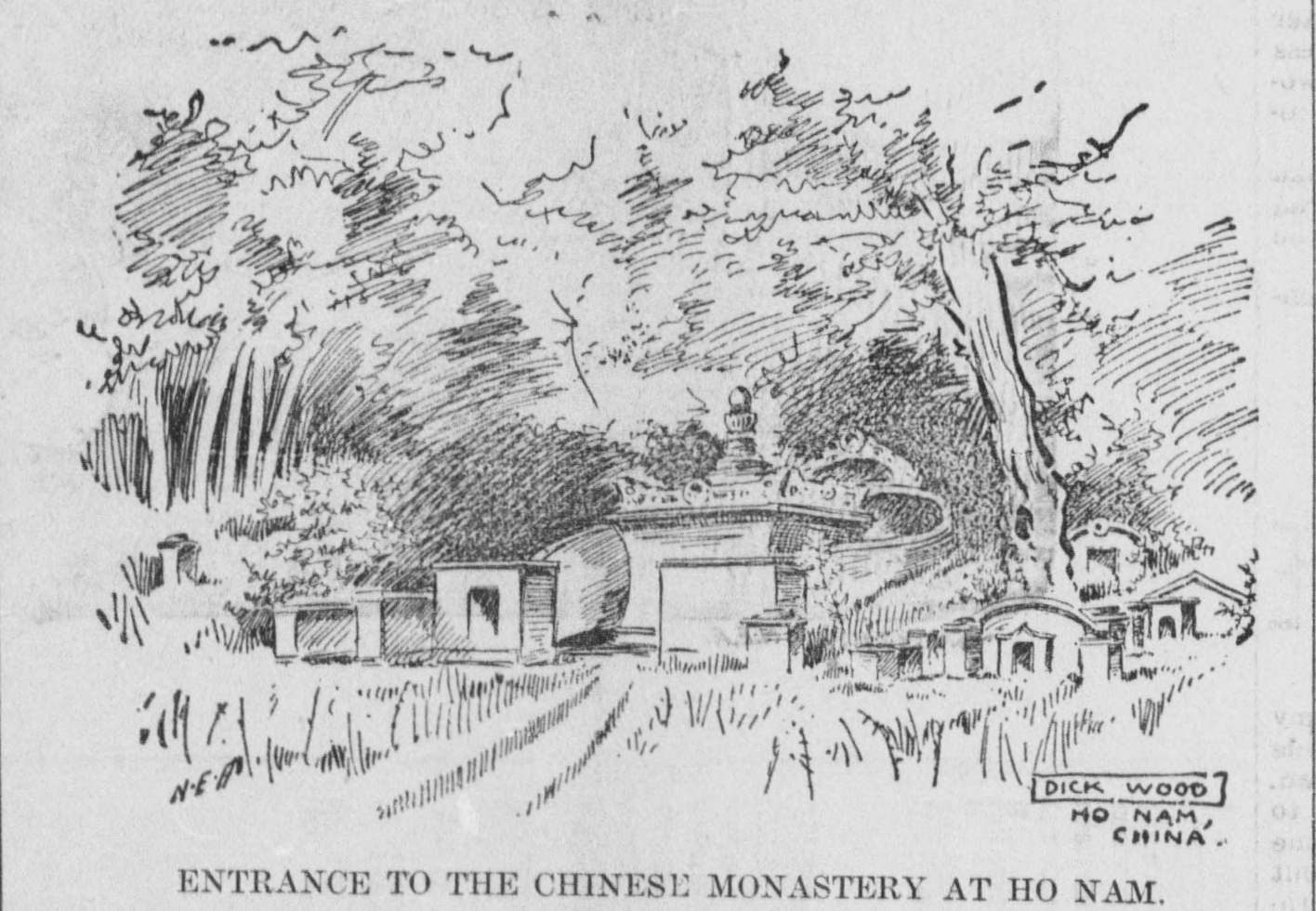 Hoi Tong Monastery, Honam, Canton, China, 1903